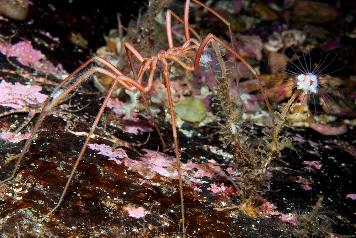 The pycnogonid Nymphon leptocheles grazes on a hydroid Tubularia indivisa (with a flower-like polyp to the right). At the same time, a tiny nudibranch Lophodoris danielsseni eats a bryozoan growing on the pycnogonid's leg [on the left; closeup].